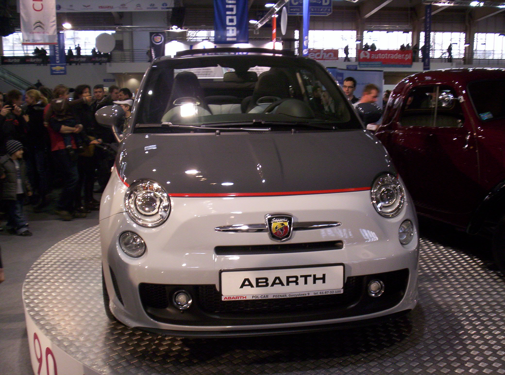 Abarth 500C at Motor Show 2011 in Poznań